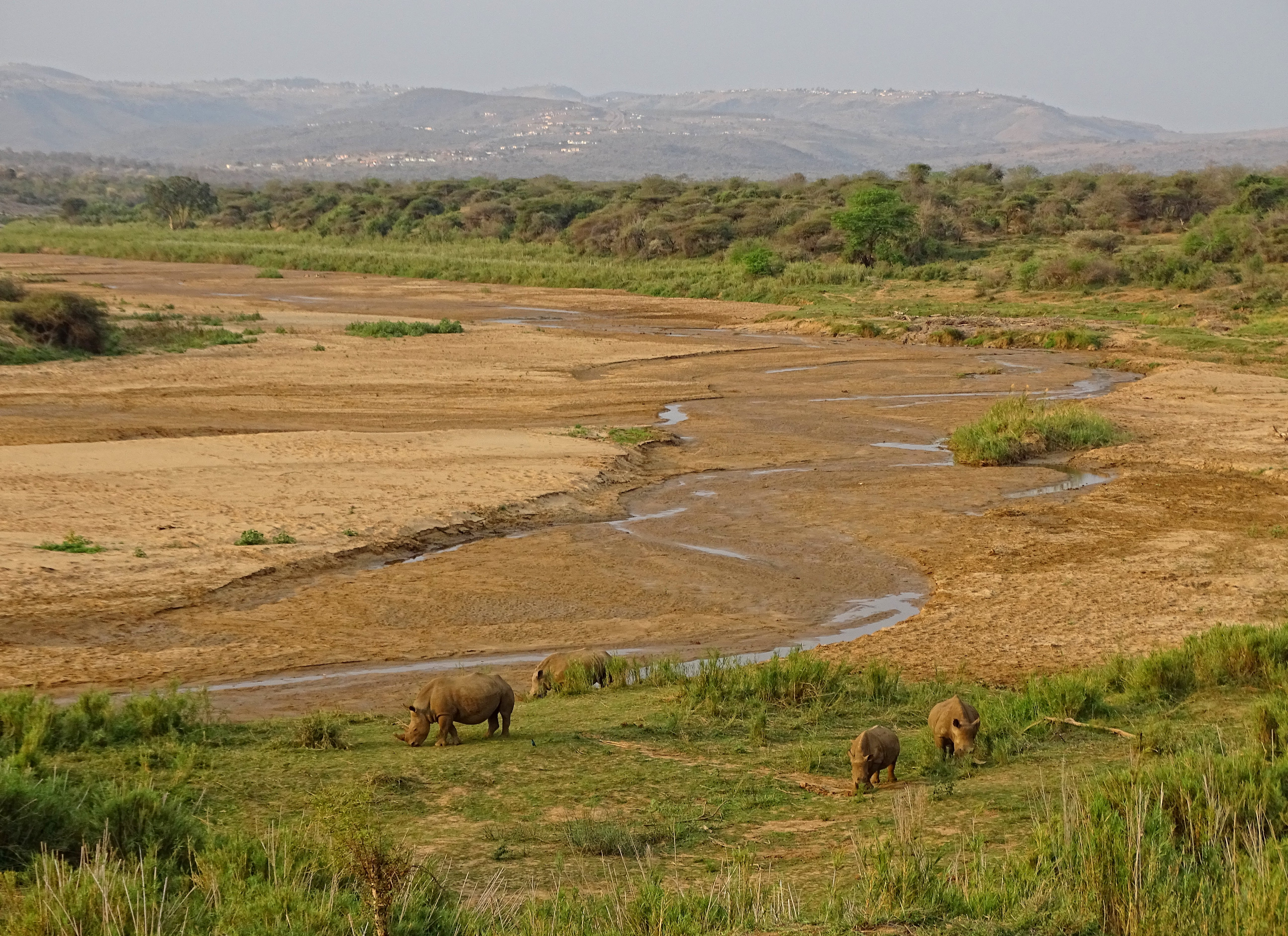 A semi-dry river bend inside Hluhluwe-Imfolozi Park, showing four white rhinos in the foreground, a pride of lions in the distance, and far in the background settlements just outside the park boundaries.